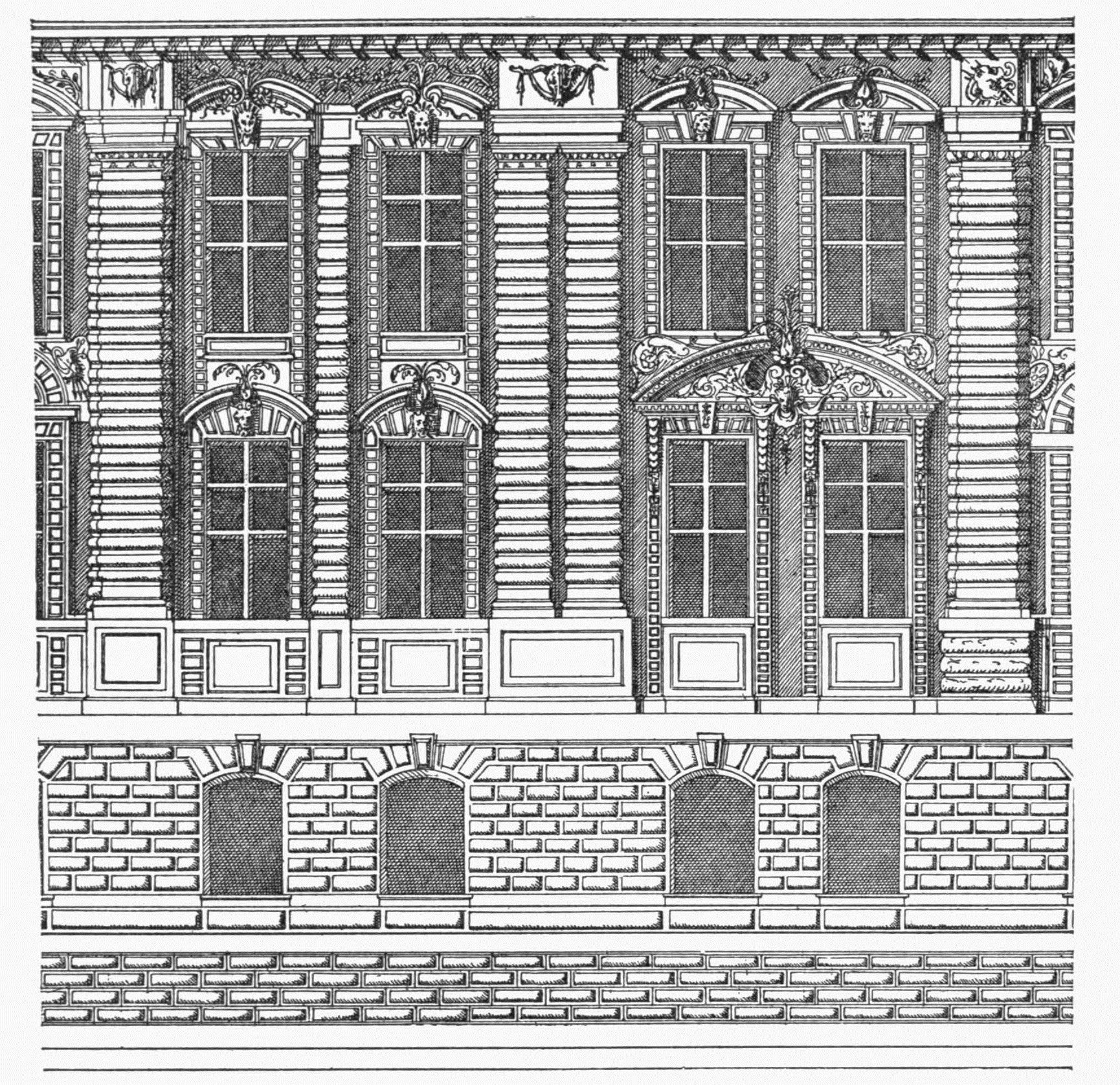 Scan from book 'Character of Renaissance Architecture'